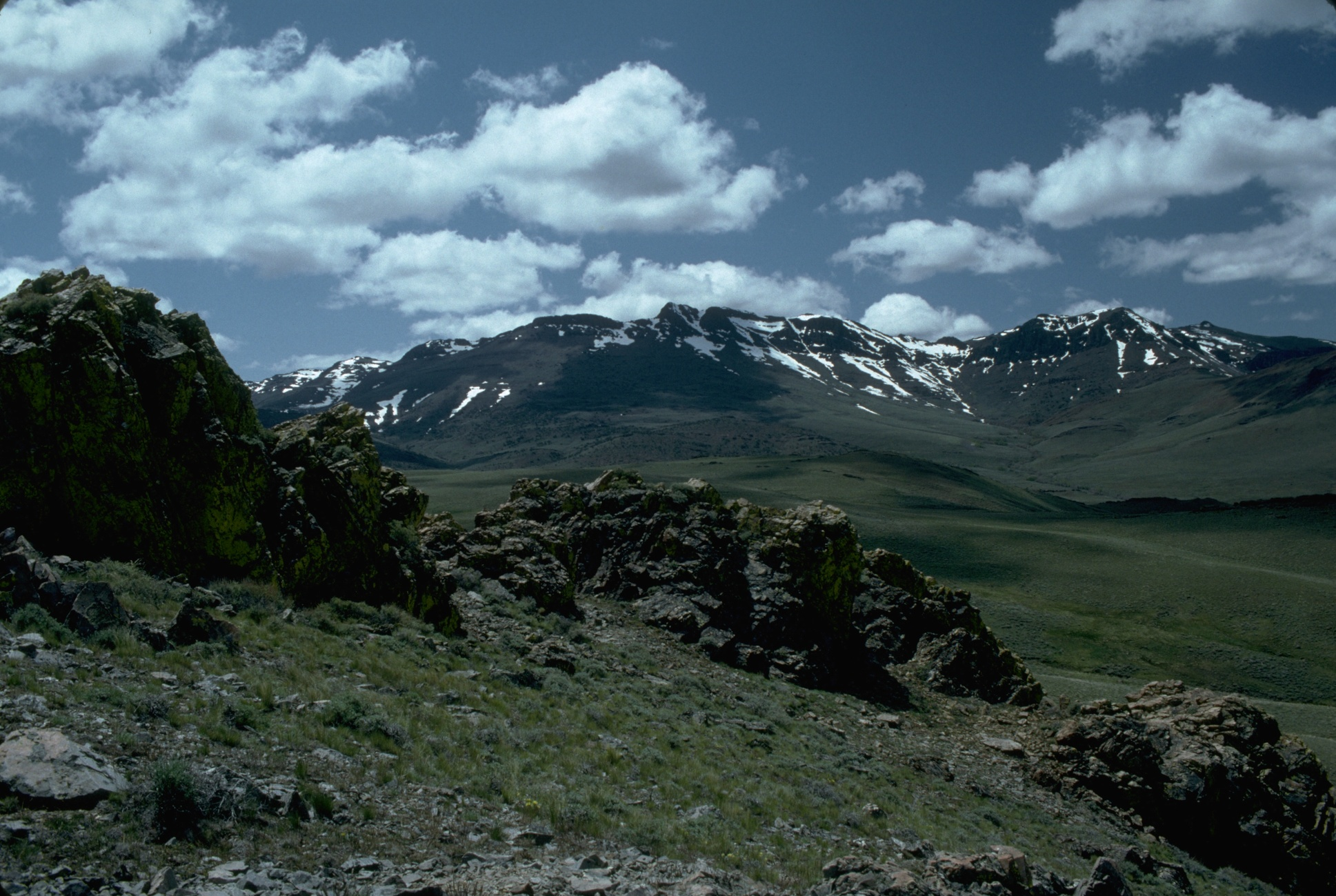 Pueblo Mountains — in the high country south of Fields, Great Basin region of Oregon.